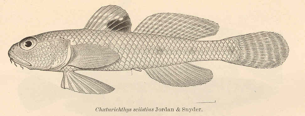 Chaeturichthys sciistius Jordan & Snyder Subject: Chaeturichthys, Gobiidae Tag: Fish